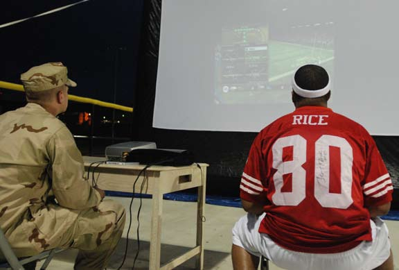 Daniel Brown, representing Navy, and Frank Wooten, representing Army, duel it out during the final round of the NCAA Army vs. Navy video game challenge. The competition was organized by Guantanamo Bay’s Morale, Welfare and Recreation program in spirit of the classic Army – Navy football game.